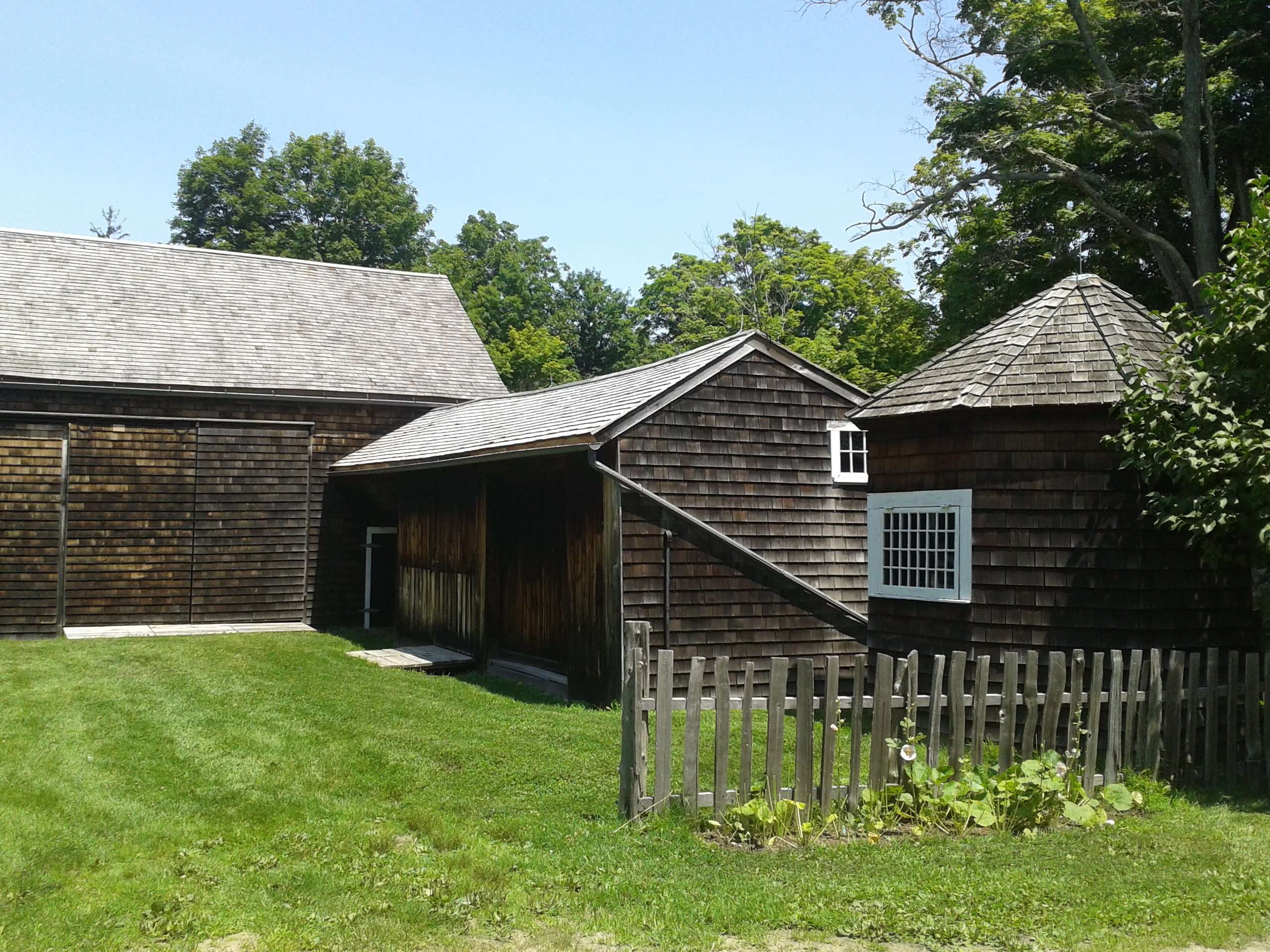 Weir Farm National Historic Site, 735 Nod Hill Road Wilton and Ridgefield